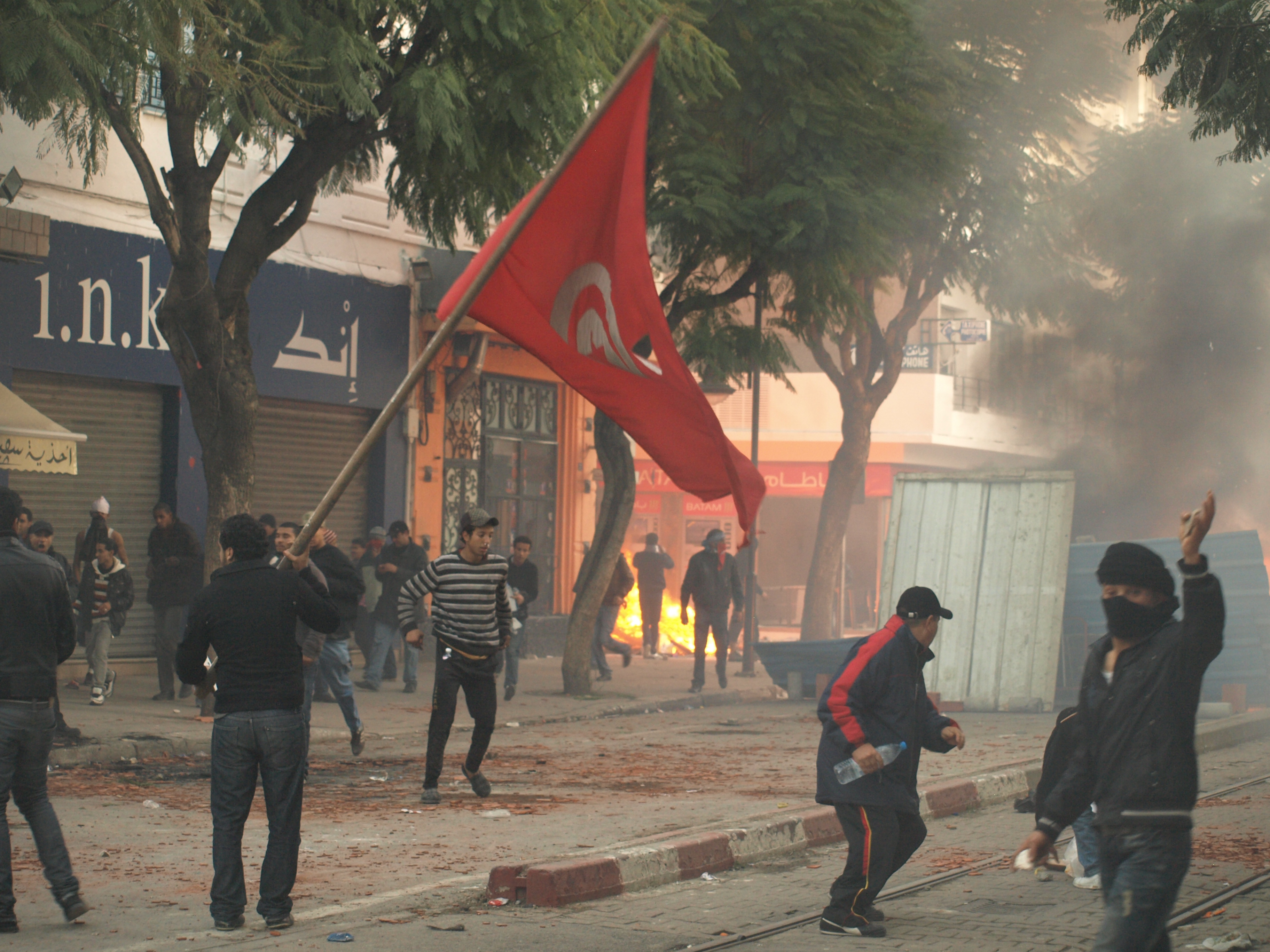 Barricades and fires: The protesters were trying by all means to prevent the police from breaking through them.